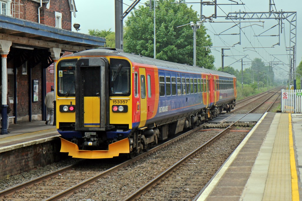 East Midlands Trains Class 153, 153357, Alsager railway station